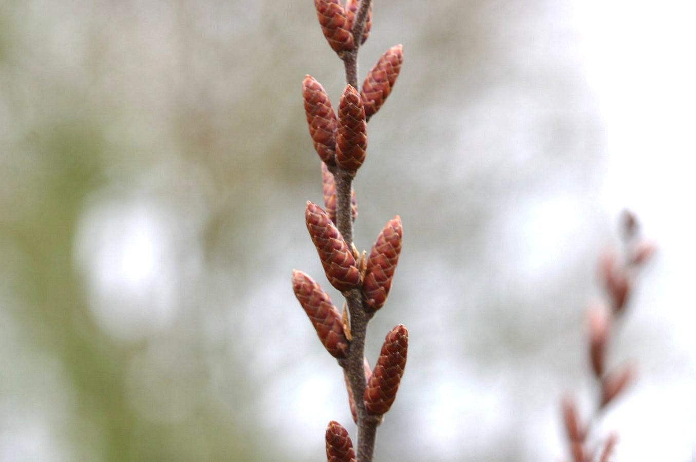 Description: Myrica gale, male catkins. Source: Own garden in Jutland, Mar 2006. Author: Sten Porse Removed watermark read: Malling 27.3.2006